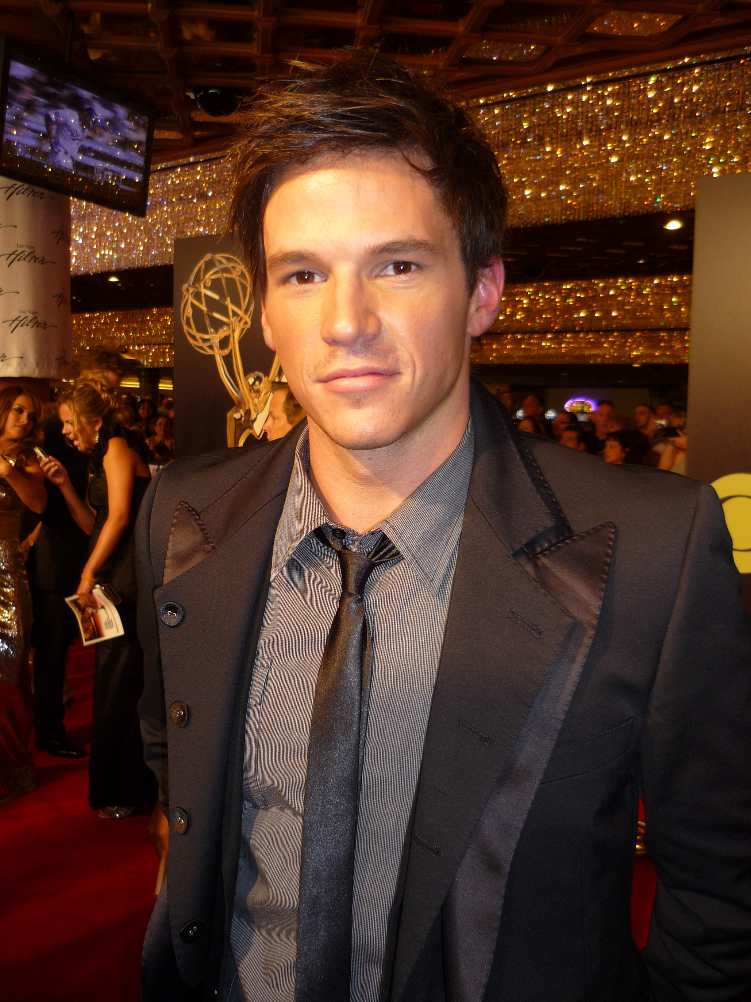 Actor Mark Hapka at 2010 Daytime Emmy Awards.